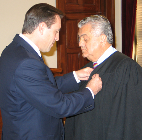 Rep. Vito Fossella Honors Judge John Fusco for His Recognition as a 2007 "Angel In Adoption."